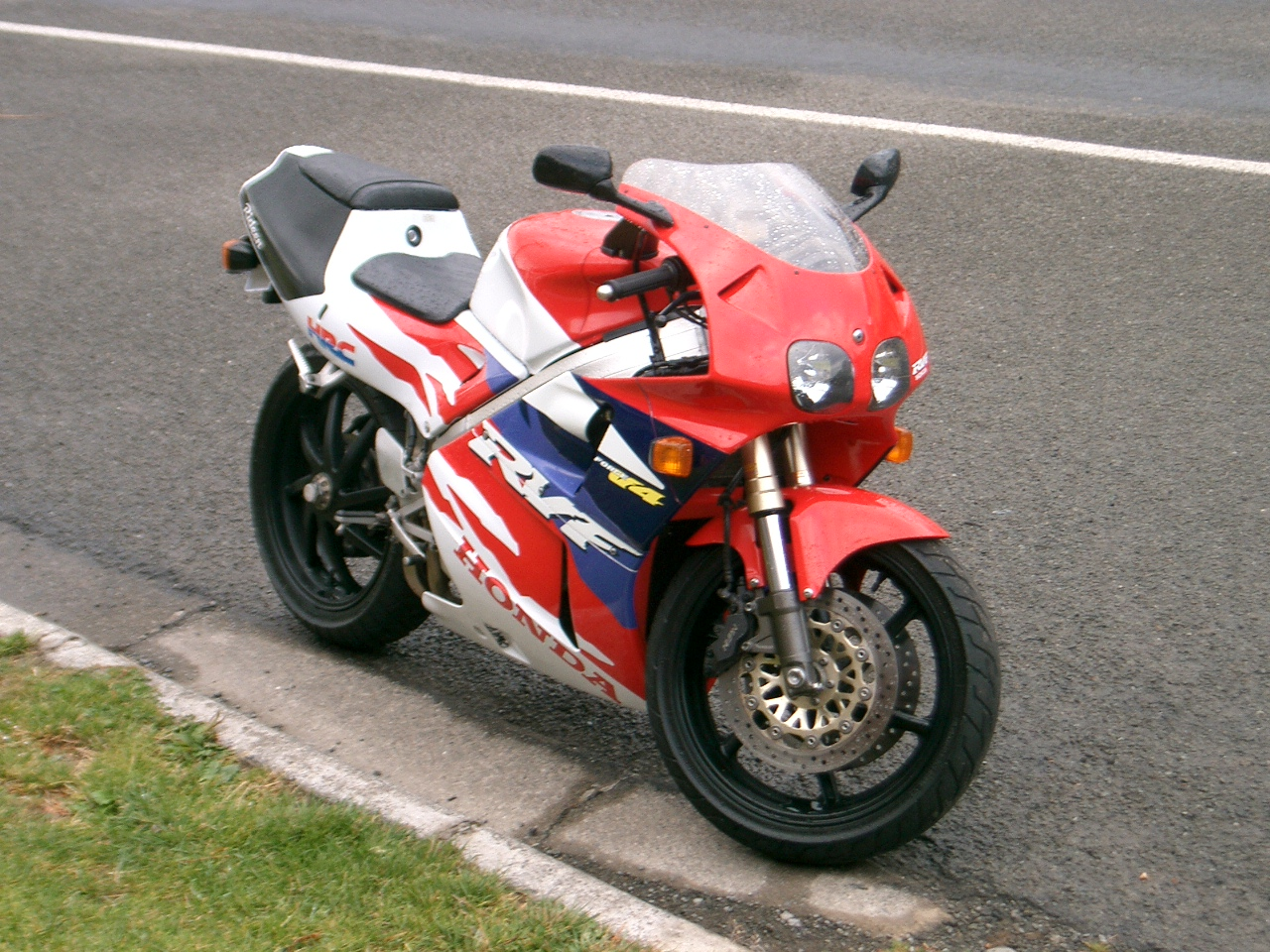 RVF400 ( NC35 ) photo by Simon Story, taken in Duvauchelle, New Zealand.